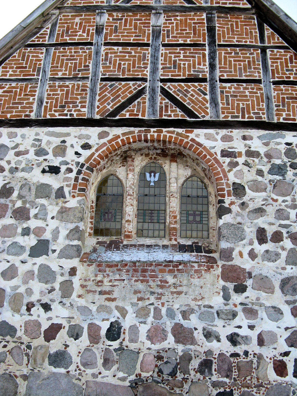 Church in Perlin, Mecklenburg-Vorpommern, Germany